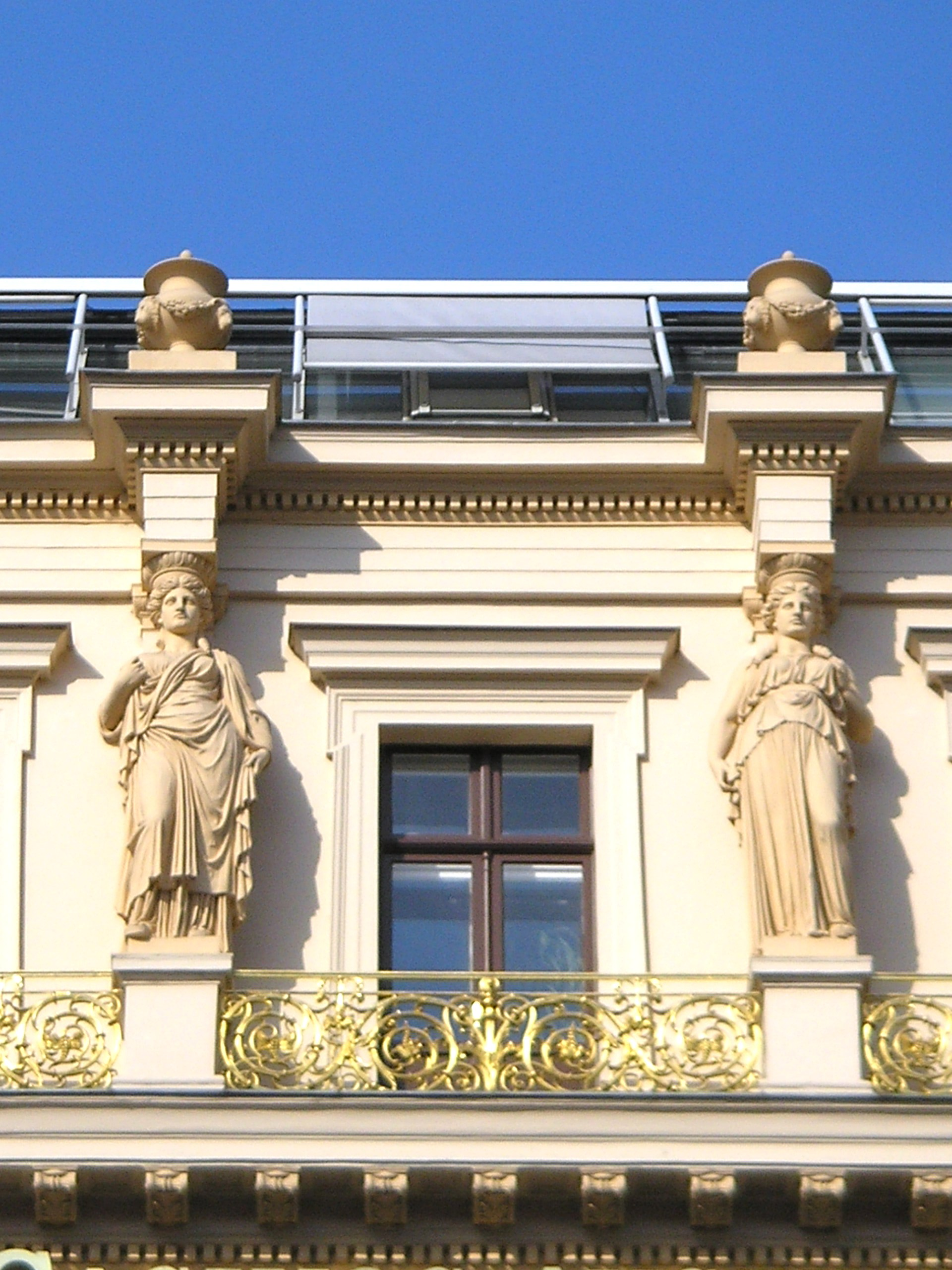 Detail of Palais Ephrussi on the Ringstraße in Vienna, formerly owned by the Jewish Austrian noble family von Ephrussi. Constructed around end of the 1800's, beginning of 1900's. "Aryanised" (confiscated) by the Nazis in 1938, the family was forced to flee. Today seat of the Casinos Austria company.